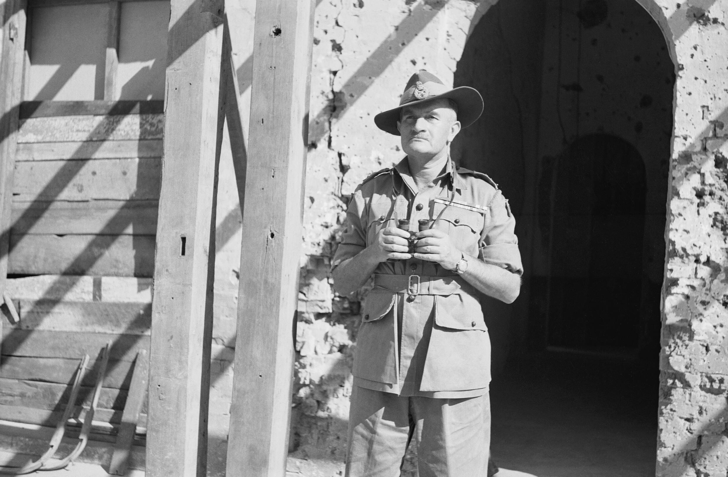 Field Marshal Sir William Slim, General Officer Commanding Fourteenth Army in Burma, 5 March 1945. Field Marshal Sir William Slim: (1891 - 1970): GOC (General Officer Commanding) 14th Army, holding binoculars outside 14th Army Headquarters in Burma.